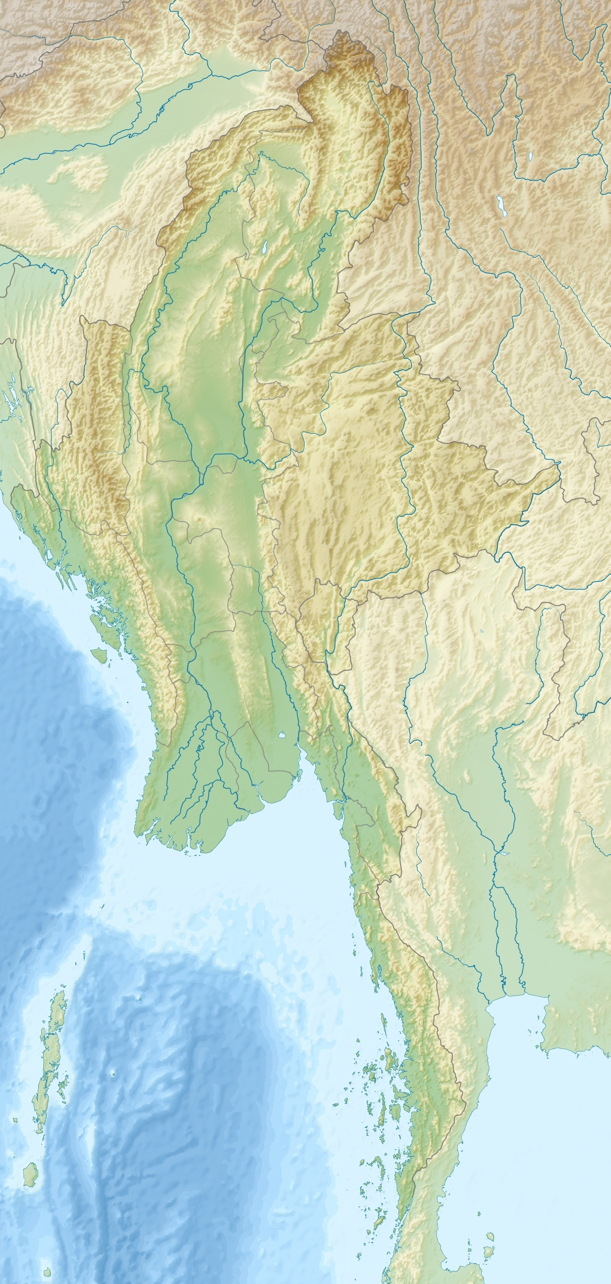 Location map of Myanmar. Equirectangular projection. Strechted by 105.0%. Geographic limits of the map: * N: 29.0° N * S: 9.0° N * W: 92.0° E * E: 102.0° E Made with Natural Earth. Free vector and raster map data @ .